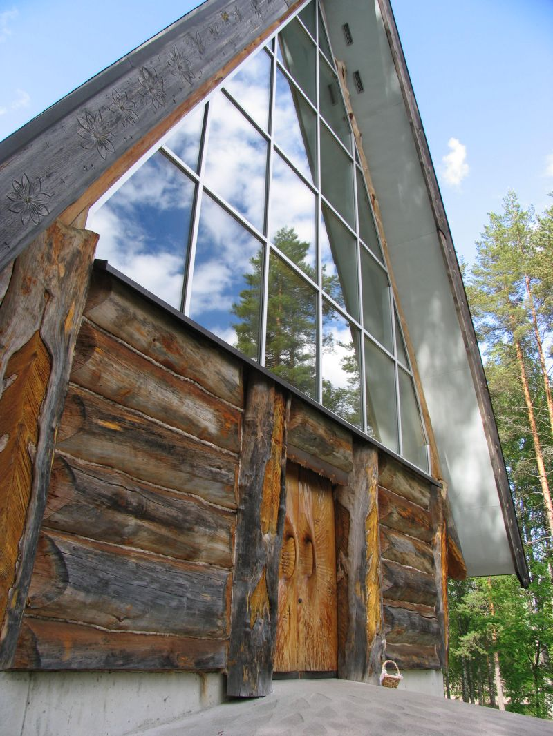 Paateri church (1991) in Lieksa, Finland. The church was build by sculptor Eva Ryynänen